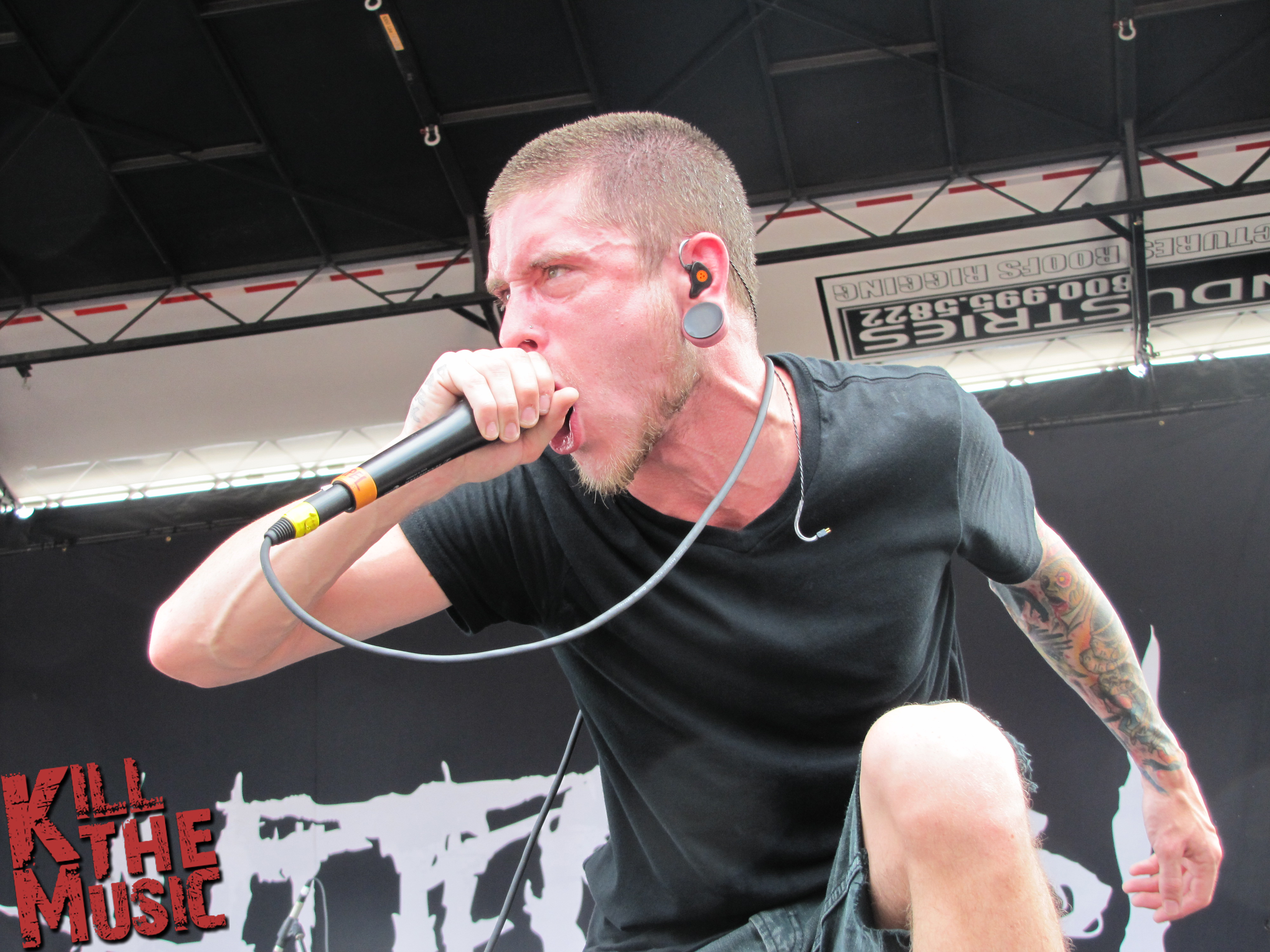 Phil Bozeman (Mayhem fest 2012)